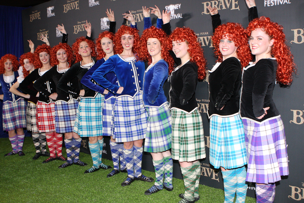 Billy Connolly in Sydney, Australia for Brave Red Carpet Event Comic genius and actor Billy Connolly is in town and he plays a large hairy Scotsman in Disney Pixar latest release Brave. Rain didn't stop fans and media lining up the red carpet at George Street's Event Cinemas to meet the 69-year-old comedian, a regular visitor to our shores. Connolly shares his voice to a 10th Century King named Fergus in the new Disney/Pixar collaboration, about a rebellious, flame-haired princess (Kally Macdonald) who rails against her intended fate - to unexpected result. Sydney Film Festival director Nashen Moodley described Brave, set against the dramatic backdrop of the Scottish Highlands, as "a wonderfully feminist story about a young princess who defies the rules to find her own bravery and do something incredible." Promo... Determined to make her own path in life, Princess Merida defies a custom that brings chaos to her kingdom. Granted one wish, Merida must rely on her bravery and her archery skills to undo a beastly curse. Directors: Mark Andrews, Brenda Chapman Writers: Mark Andrews (screenplay), Steve Purcell (screenplay Stars: Kelly Macdonald, Billy Connolly and Emma Thompson Websites Brave official website Disney (Australia) Billy Connolly official website Event Cinemas Eva Rinaldi Photography Flickr Eva Rinaldi Photography